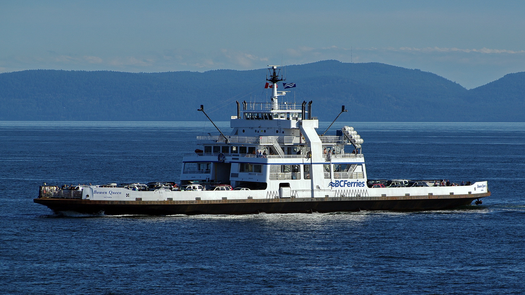 Bowen Queen in bound from the Gulf Islands - seen just off of Tsawwassen Terminal - 3 July 2011